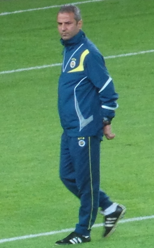 İsmail Kartal